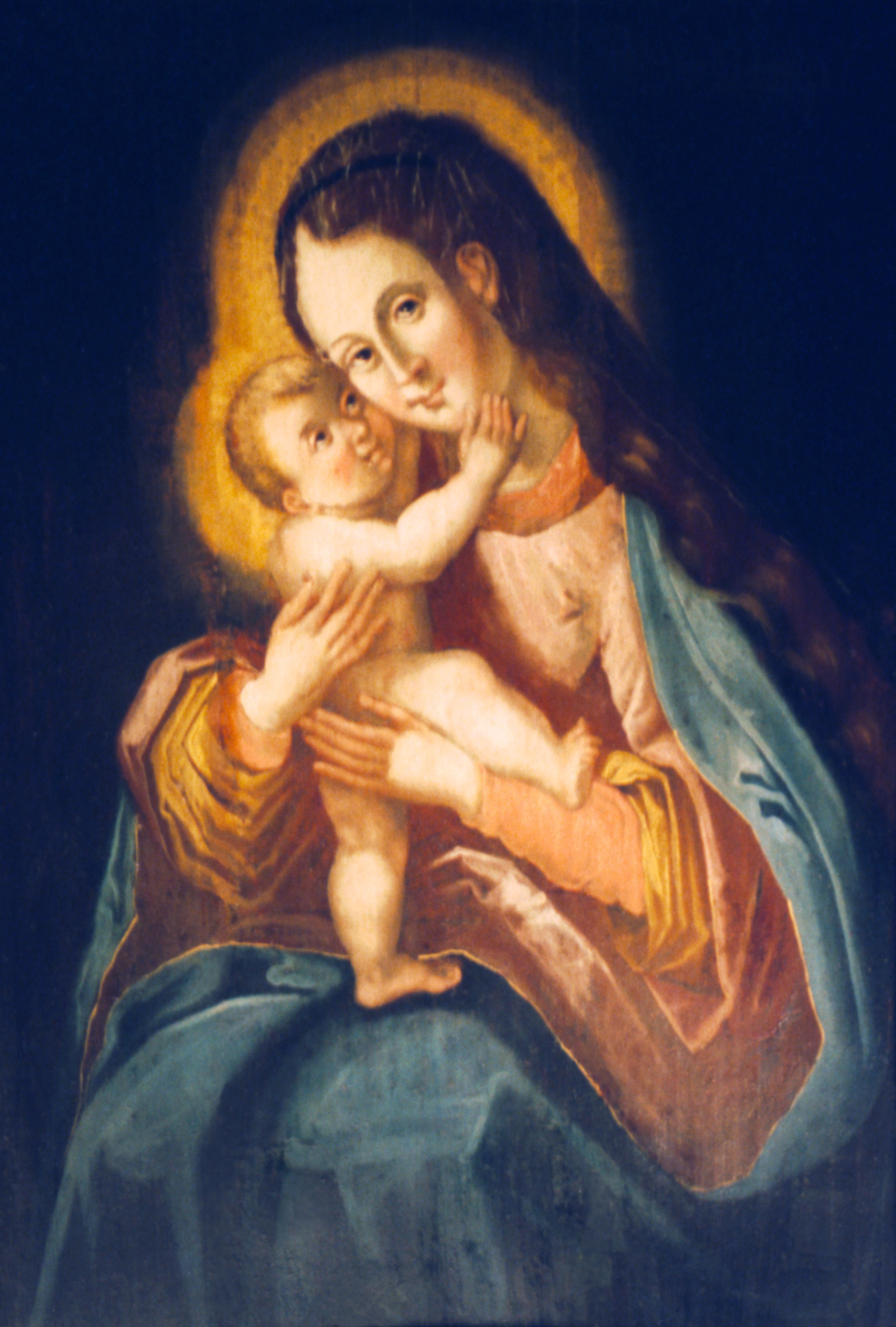 Picture above the high altar of the Most Holy Trinity Church in Fulnek, Czechia